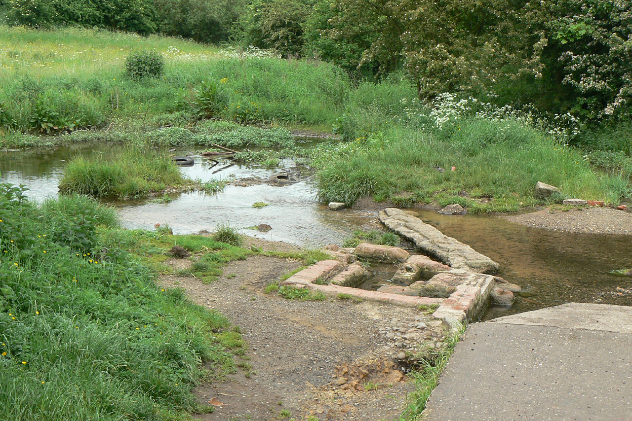 Farleys Lane Spring. The Farley Brook rises further west, passing under Farleys Lane in a concrete culvert (bottom right), but at this point is added to by a substantial spring which rises within the odd brick structure in the centre.